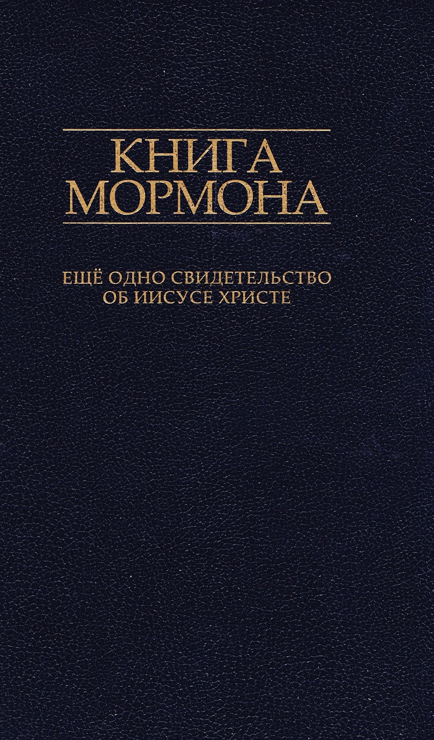 Book of Mormon translated into Russian